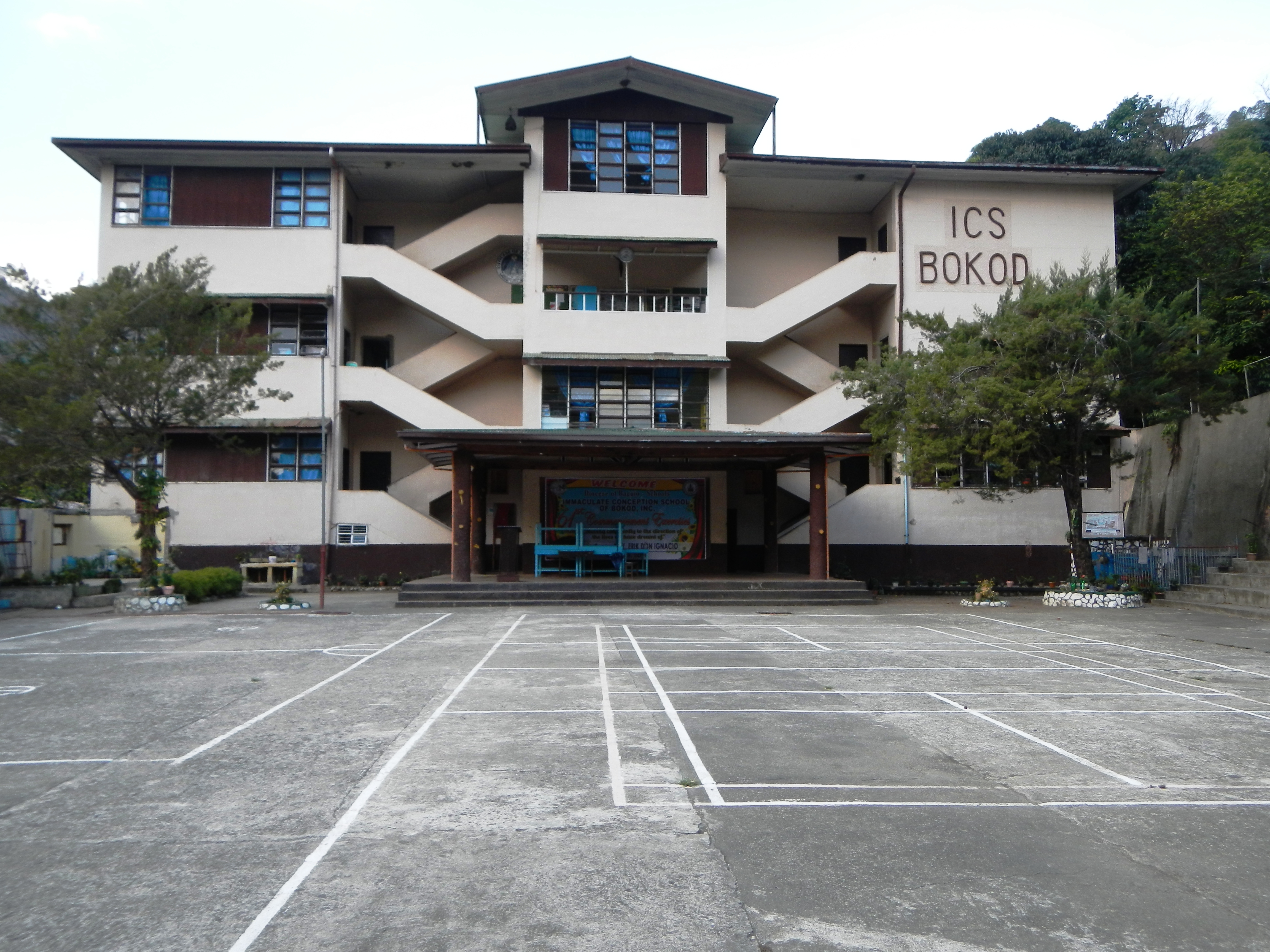 Bokod Municipal Hall (Complex, Compound, New Town Hall being contructed, the Logo, Seal and Facade, including the Municipal Circuit Trial Court, Offices, Legislative Hall) and in the Center is the Immaculate Conception Parish Church (Bokod, Benguet) (F-1922 [ Roman Catholic Diocese of Baguio, 2605 Bokod, Benguet Vicariate of Santo Niño Titular: Immaculate Conception, December 8 Parish Priest: Fr. Mathias Lee, KMS Parochial Vicar: Fr. Stefano Lee, KMS) of Bokod, Benguet Benguet, Philippines.